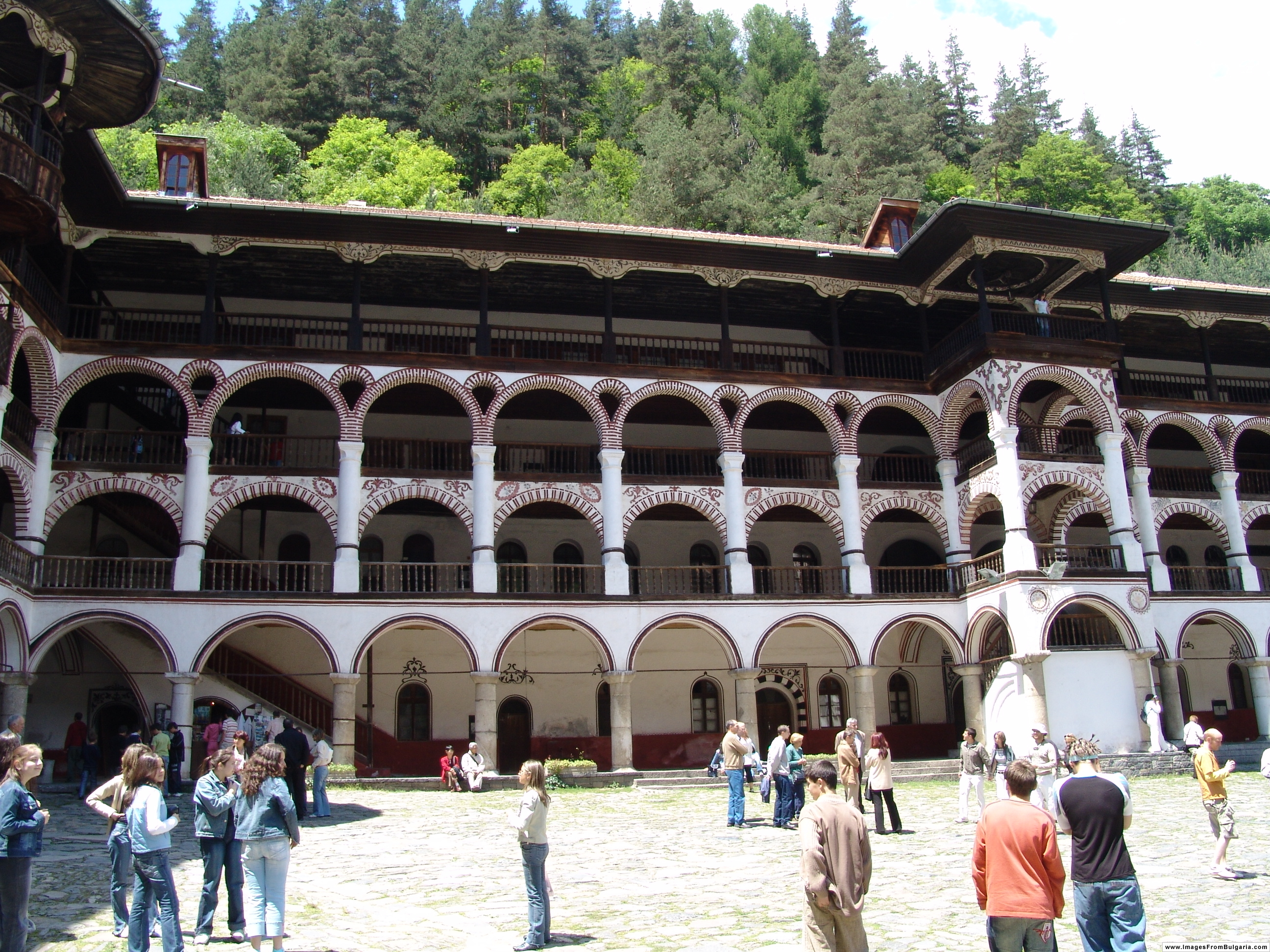 Rila Monastery, Bulgaria.